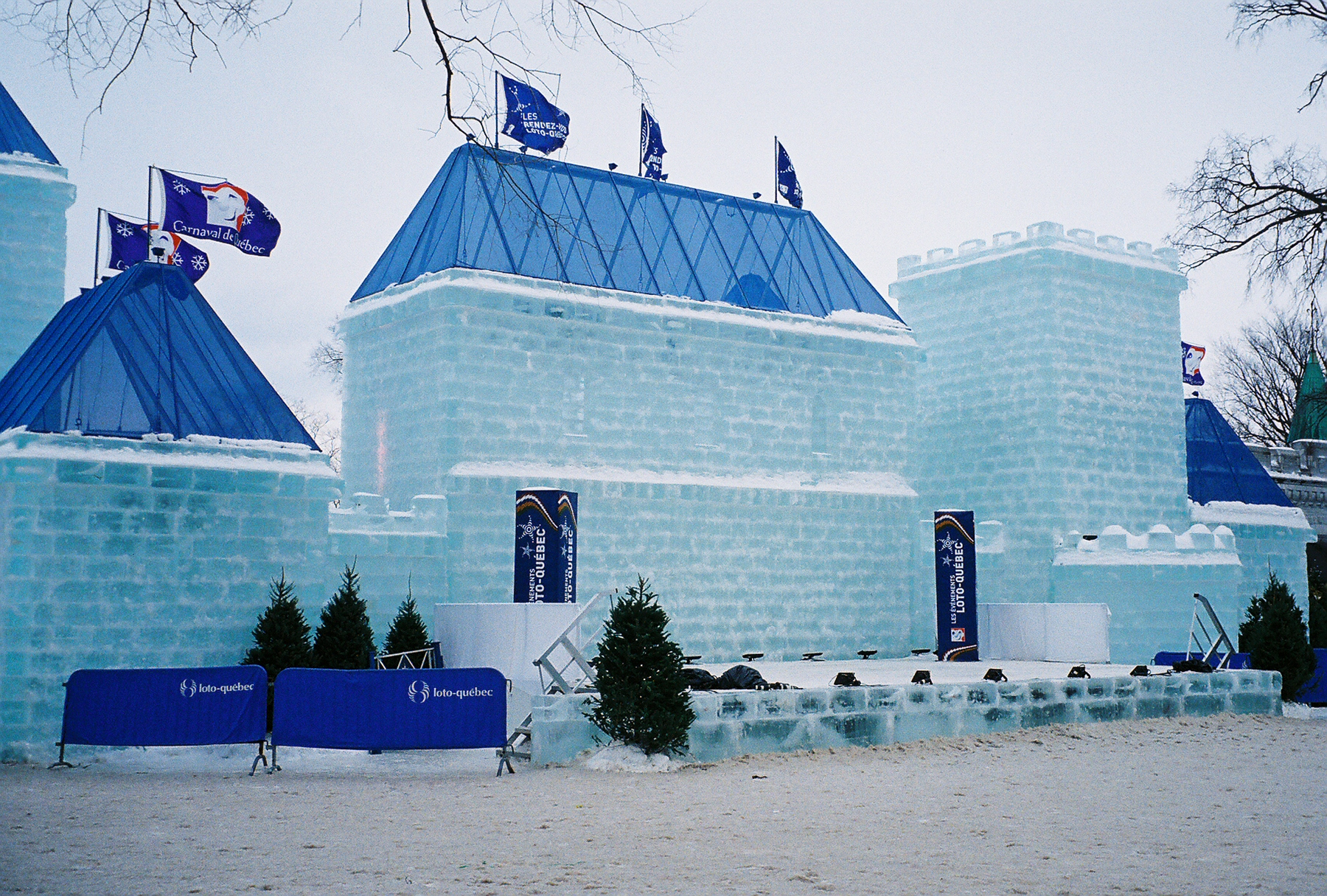 A picture of Quebec Winter Carnival.